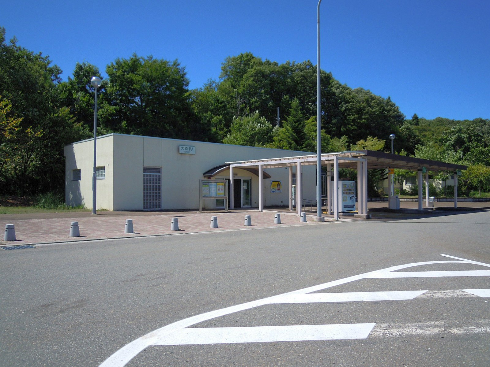 This rest area, Omori Parking Area（for Akita）, is on Akita Expressway, in Yokote City, Akita Prefecture, Japan.